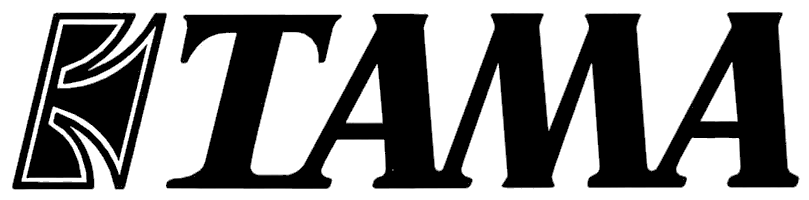 Logo for Japanese drums company Tama.